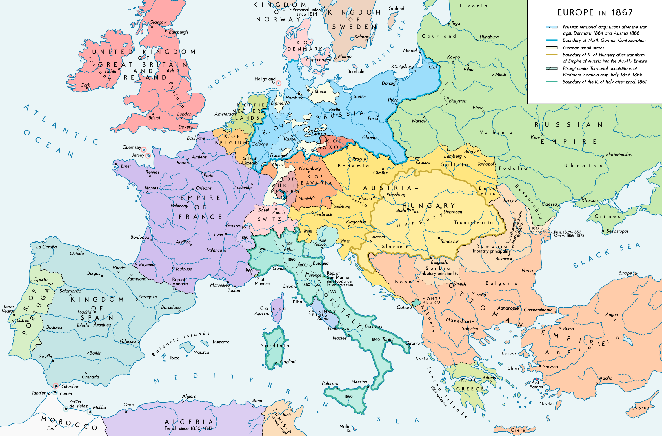 Europe 1867. Historical map of the political situation after the forming of the North German Confederation, the Italian Risorgimento (with the exception of the Roman part of the Papal States) and the Austro-Hungarian Compromise of 1867. Please don't alter the map, when you think there something not written or depicted correctly. Leave a message at the talk page of the file. After a verificiation and a possible discussion, i will upload a new map version with all new changes. This prevents an unnecessary waste of disc space and ensures a good result, aesthetically and contentwise. - The author.